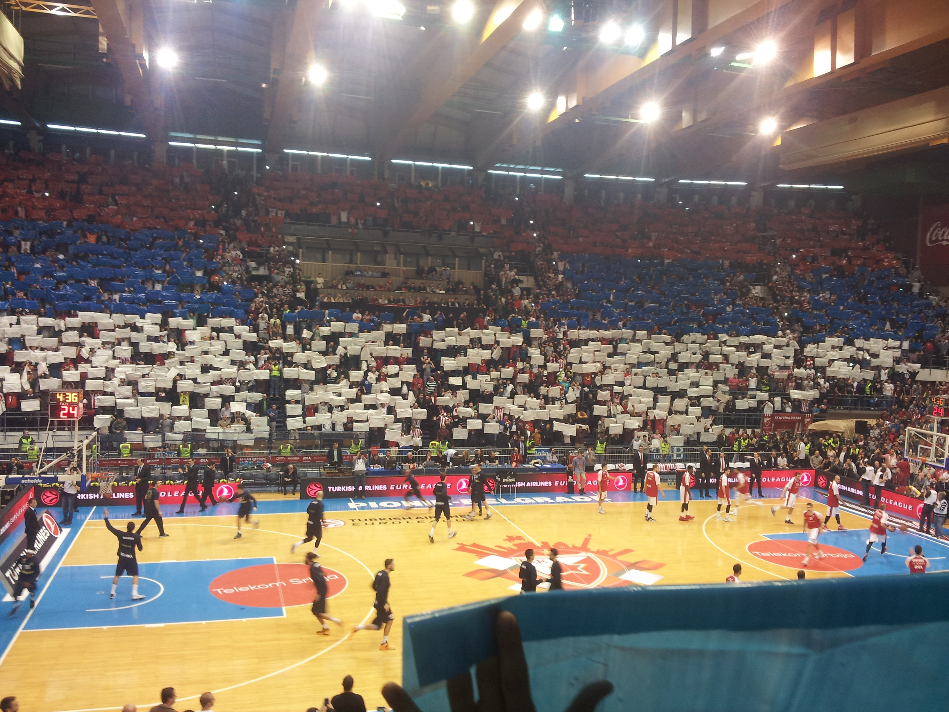 Before Euroleague game KK Crvena zvezda- Fenerbahce